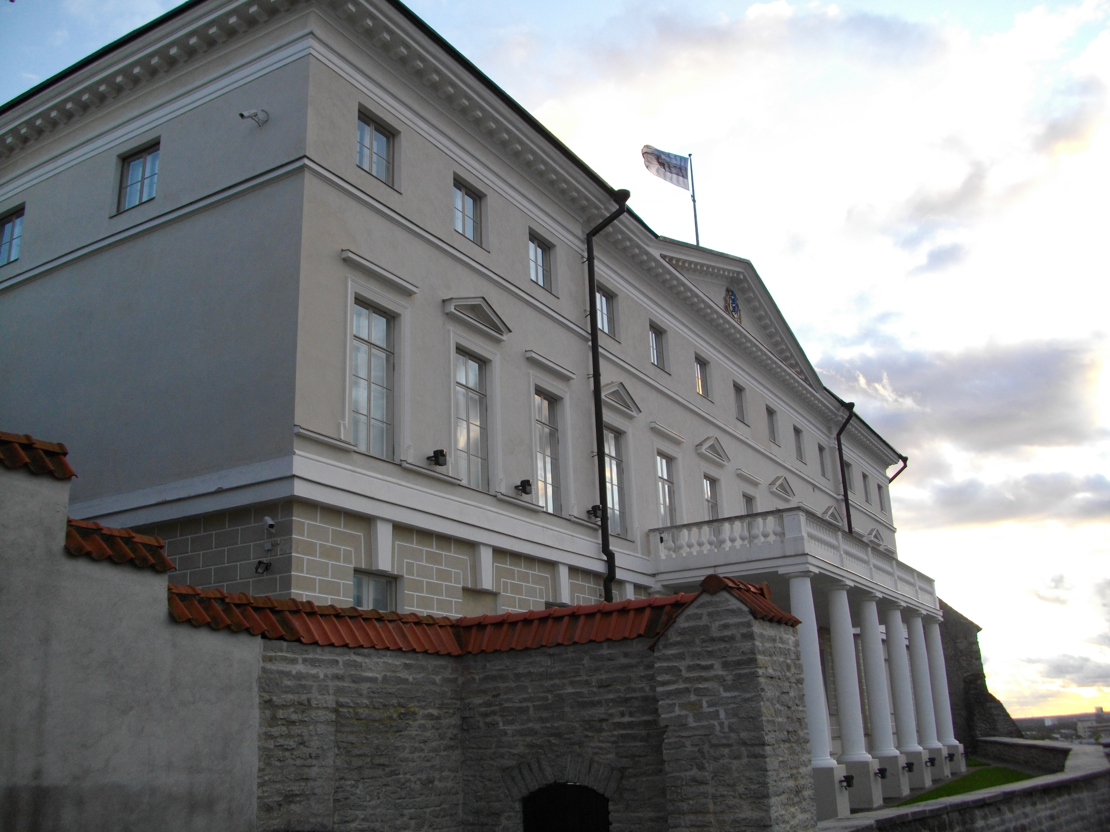 Дом Стенбока